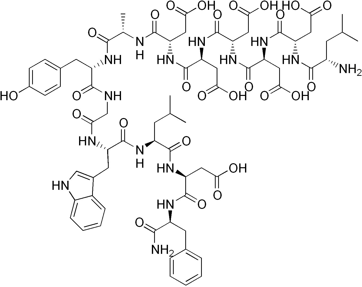 chemical structure of minigastrin (mini gastrin)